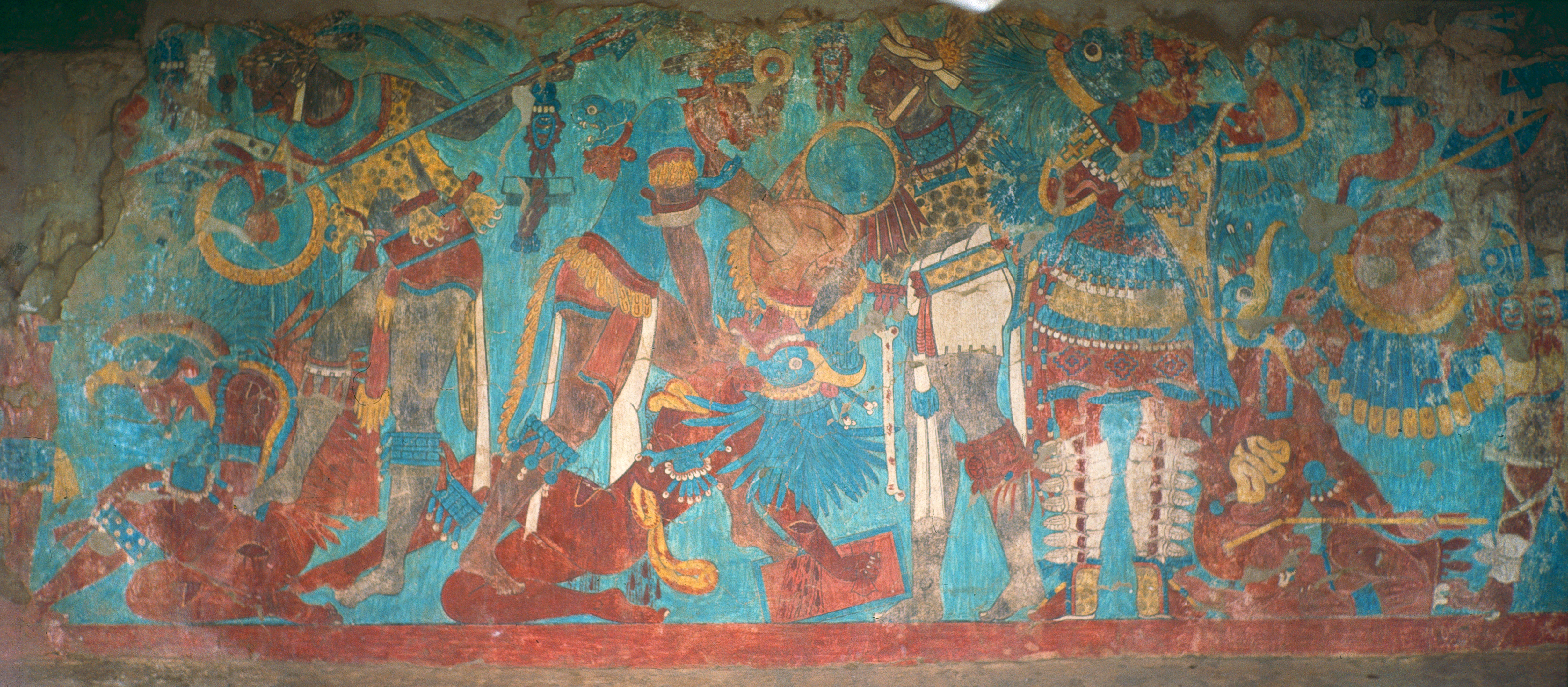 Cacaxtla, Tlaxcala, Mexico: battle mural